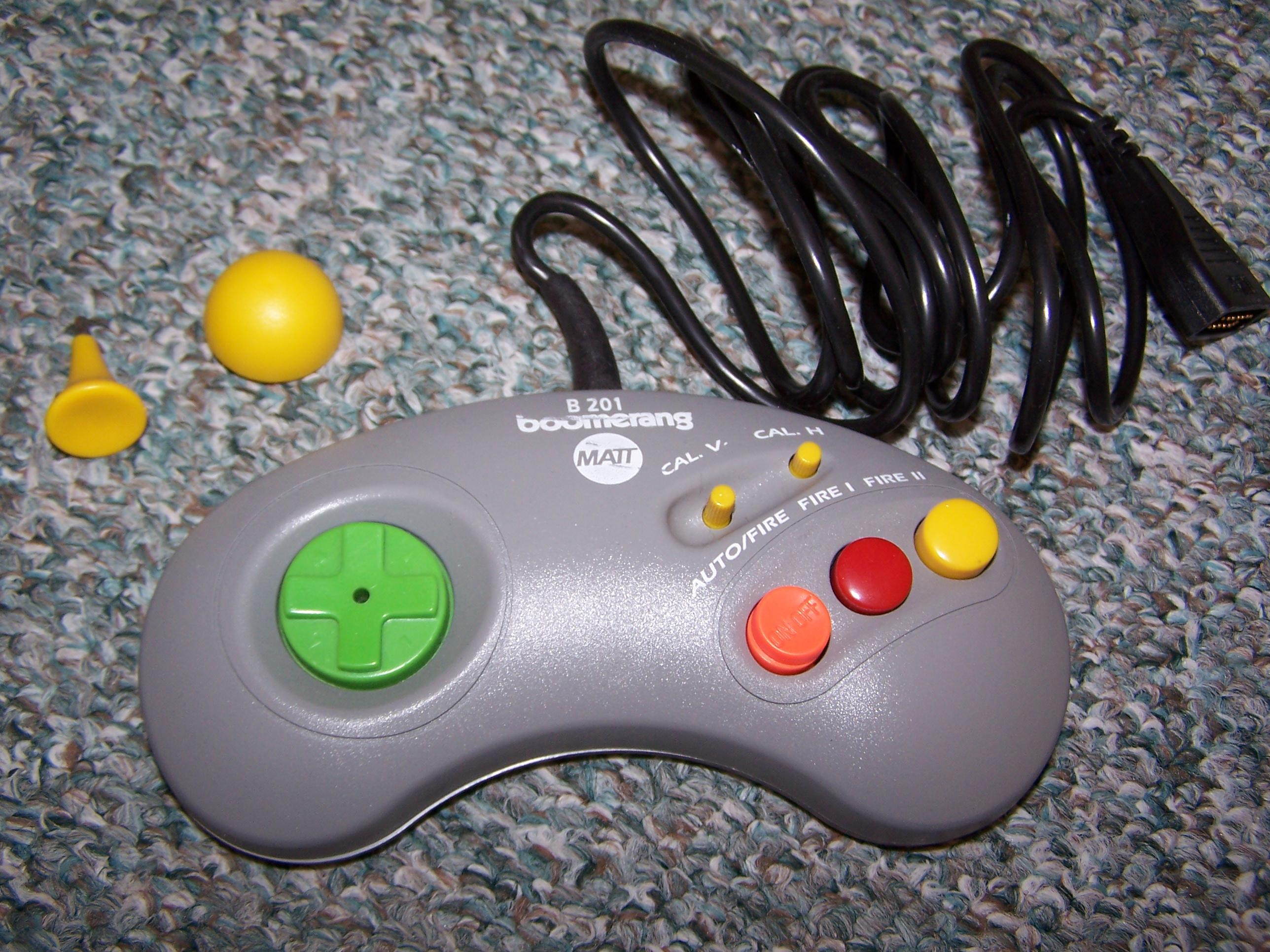 Joypad PC BOOMERANG 2xfire version lux, manufactured by MATT.